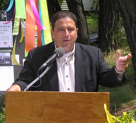 City Councilor Rob Consalvo. Dedication of Dell Rock Urban Wild Hyde Park Mass June 2010